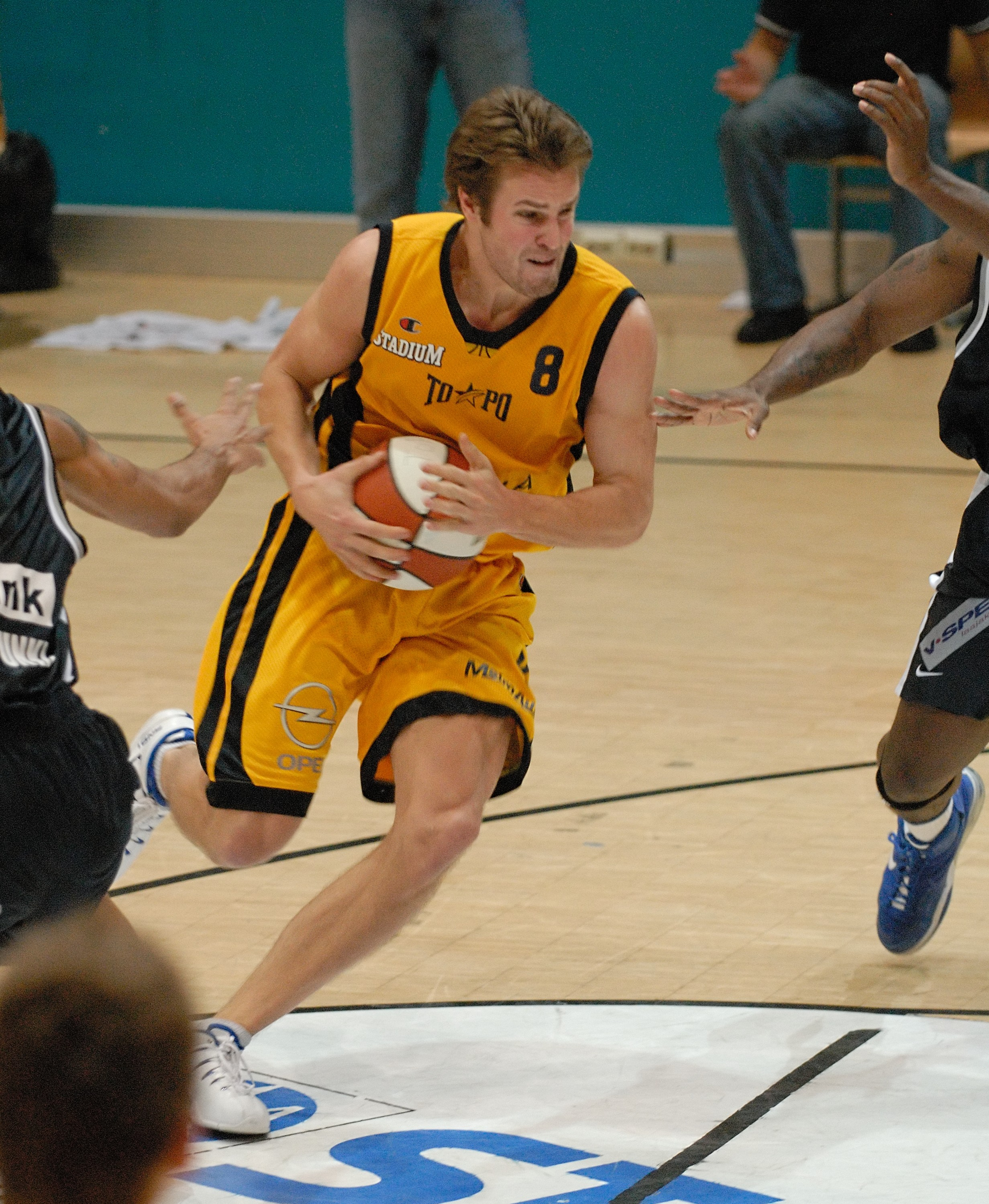 Timo Heinonen playing for Torpan Pojat Dec 30th 2007 in Torpan Pojat vs. Korihait in Helsinki.